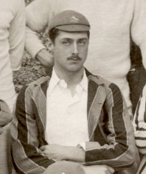 The Kent County Cricket team, circa 1888. John Tonge.